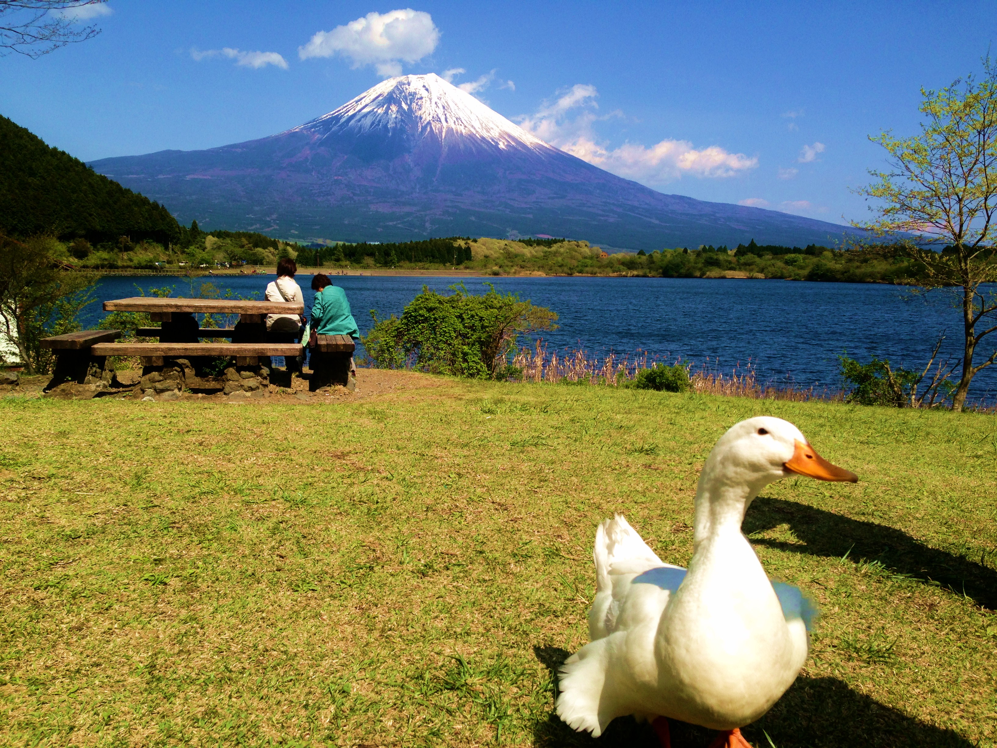 Mount Fuji as seen from Lake Tanuki with a duck